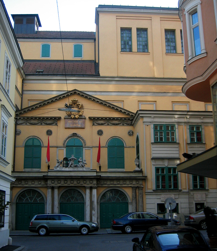 Wien, Austria: Theater an der Wien, Papagenotor